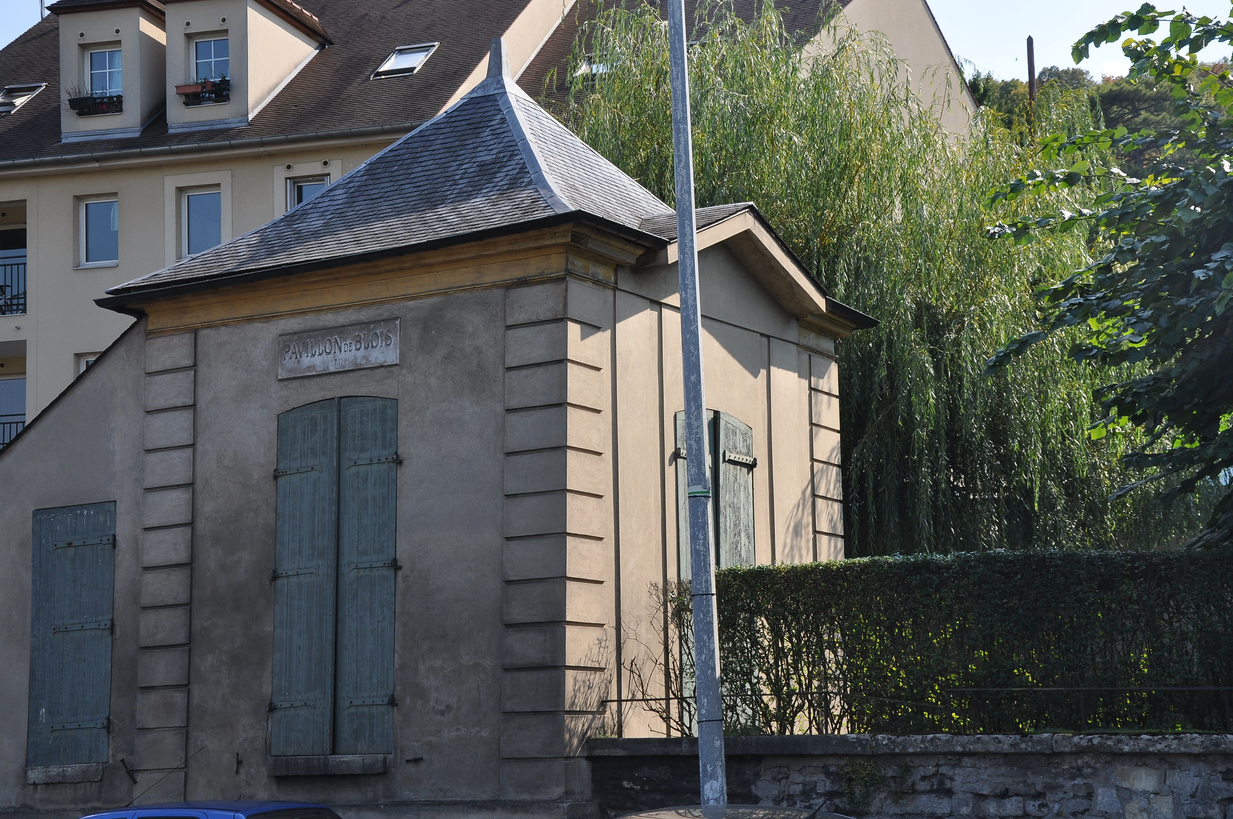 Pavillon de Blois belonging to Marie Anne de Bourbon (1666-1739), Mademoiselle de Blois, daugtheur of Louis XIV and Louise de La Vallière at Bougival in France